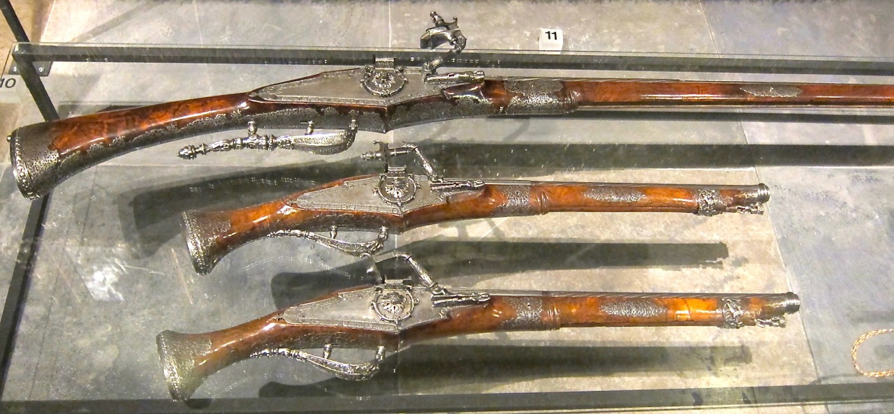 Wheellock firearms